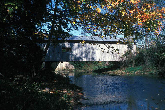 DIMMSVILLE CB OVER COCLAMUS CREEK; 109’ BURR; 1902